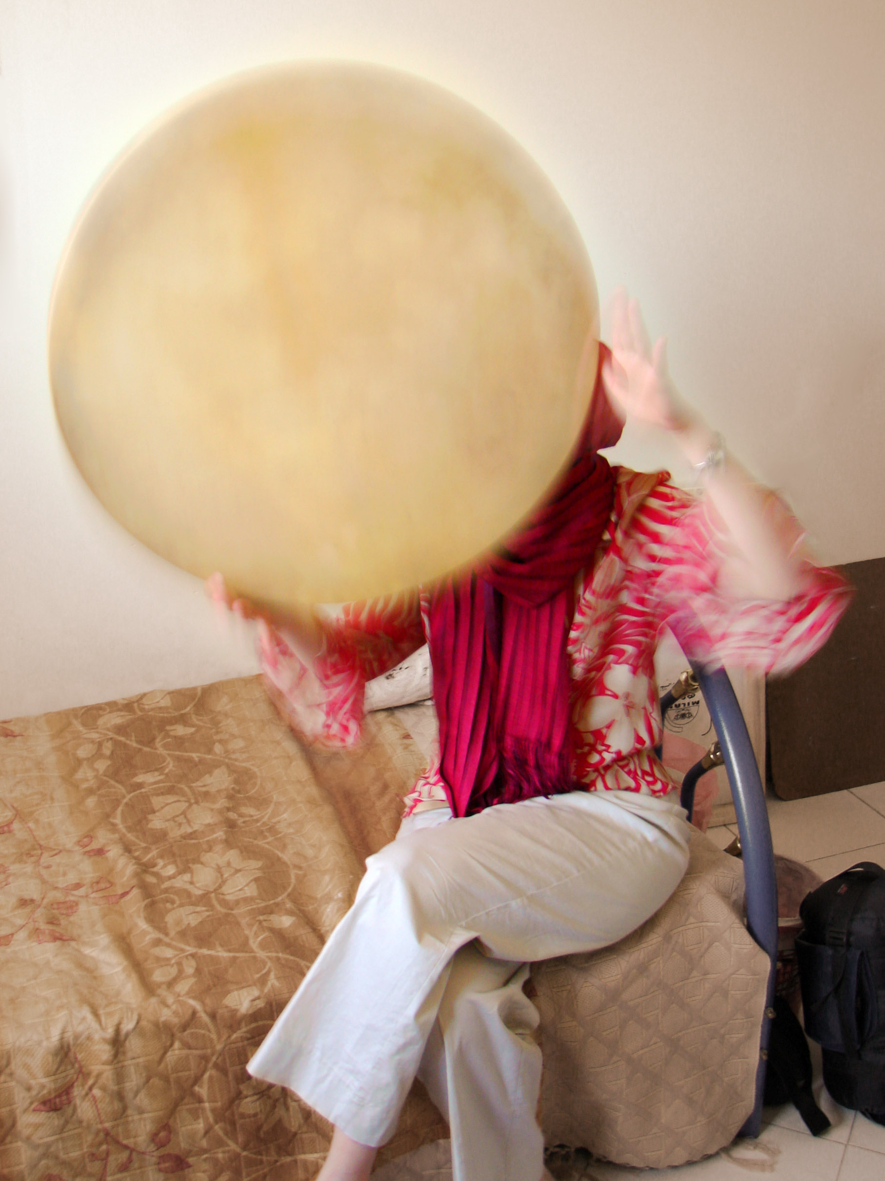 This girl is playing a Daf drum, an Iranian musical instrument.